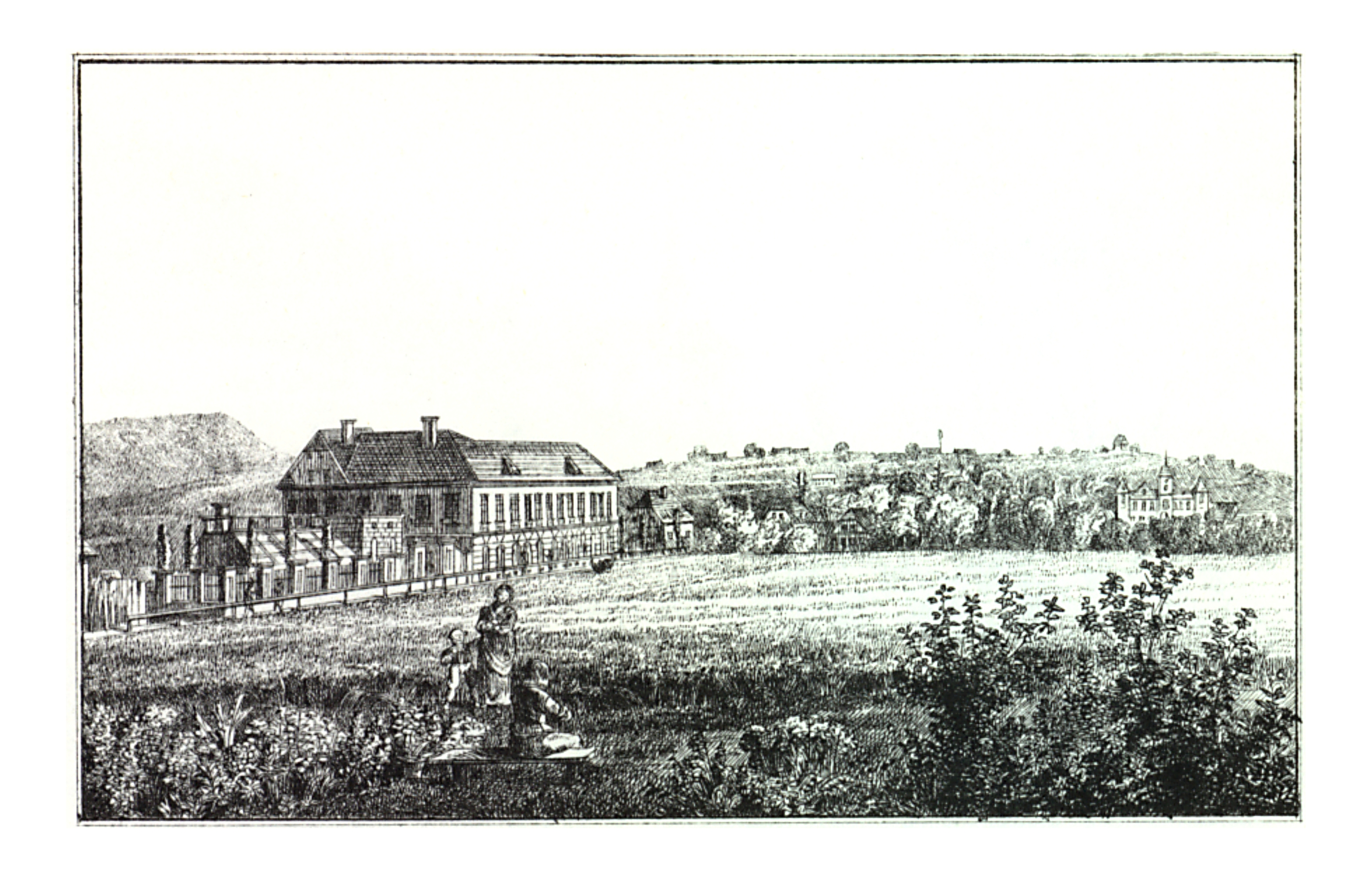 J. F. Kaiser - lithographirte Ansichten der Steyermärkischen Städte, Märkte und Schlösser, Graz 1824-1833 Joseph Franz Kaiser (1786–1859) Alternative names J. F. KaiserDescriptionAustrian printer and editorDate of birth/death 11 March 1786 19 September 1859Location of birth/death Graz (Styria) GrazAuthority control : Q1499963 VIAF: 30629353 ISNI: 0000 0000 3083 0153 LCCN: n87141671 GND: 129880159 NLP: A24960305 WorldCat creator QS:P170,Q1499963 . Scanprojekt Community Projektbudget 2012 This scan or this PDF-file was created within the GLAM-project Bookscanning, supported by Wikimedia Germany and Wikimedia Austria as a part of the community-project to capture books, documents and pictures which are not eligible to copyright or for which the copyright has expired. This document describes or depicts an object which is located in Austria today. Send requests for uncompressed scans to Hubertl. This work is in the public domain in its country of origin and other countries and areas where the copyright term is the author's life plus 100 years or less. You must also include a United States public domain tag to indicate why this work is in the public domain in the United States. This file has been identified as being free of known restrictions under copyright law, including all related and neighboring rights.